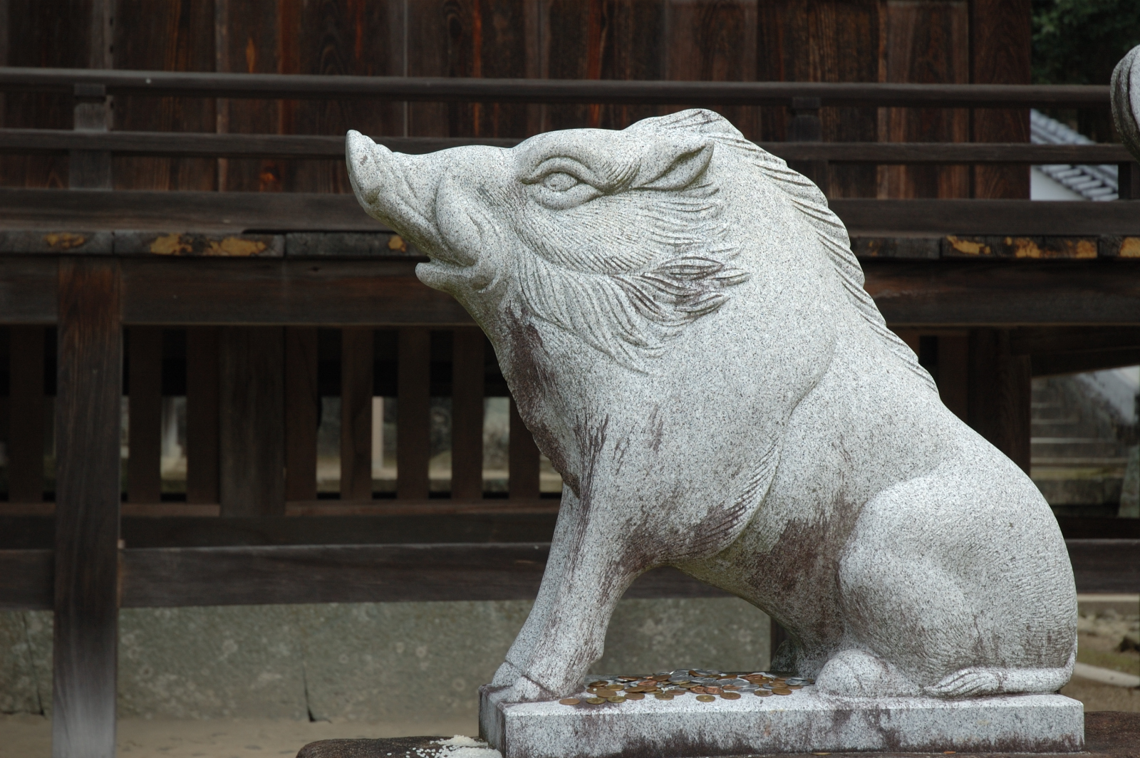 one of the pair of stone guardian wild boars, "a"style in Wake-jinja, Okayama, Japan.